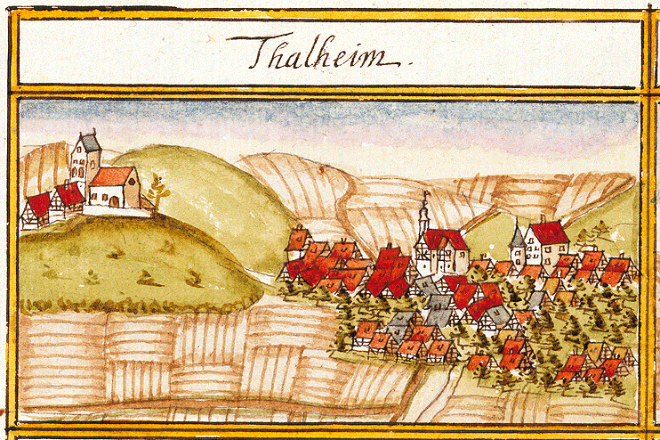 View of Talheim, Mössingen, from the forest register books created by Andreas Kieser